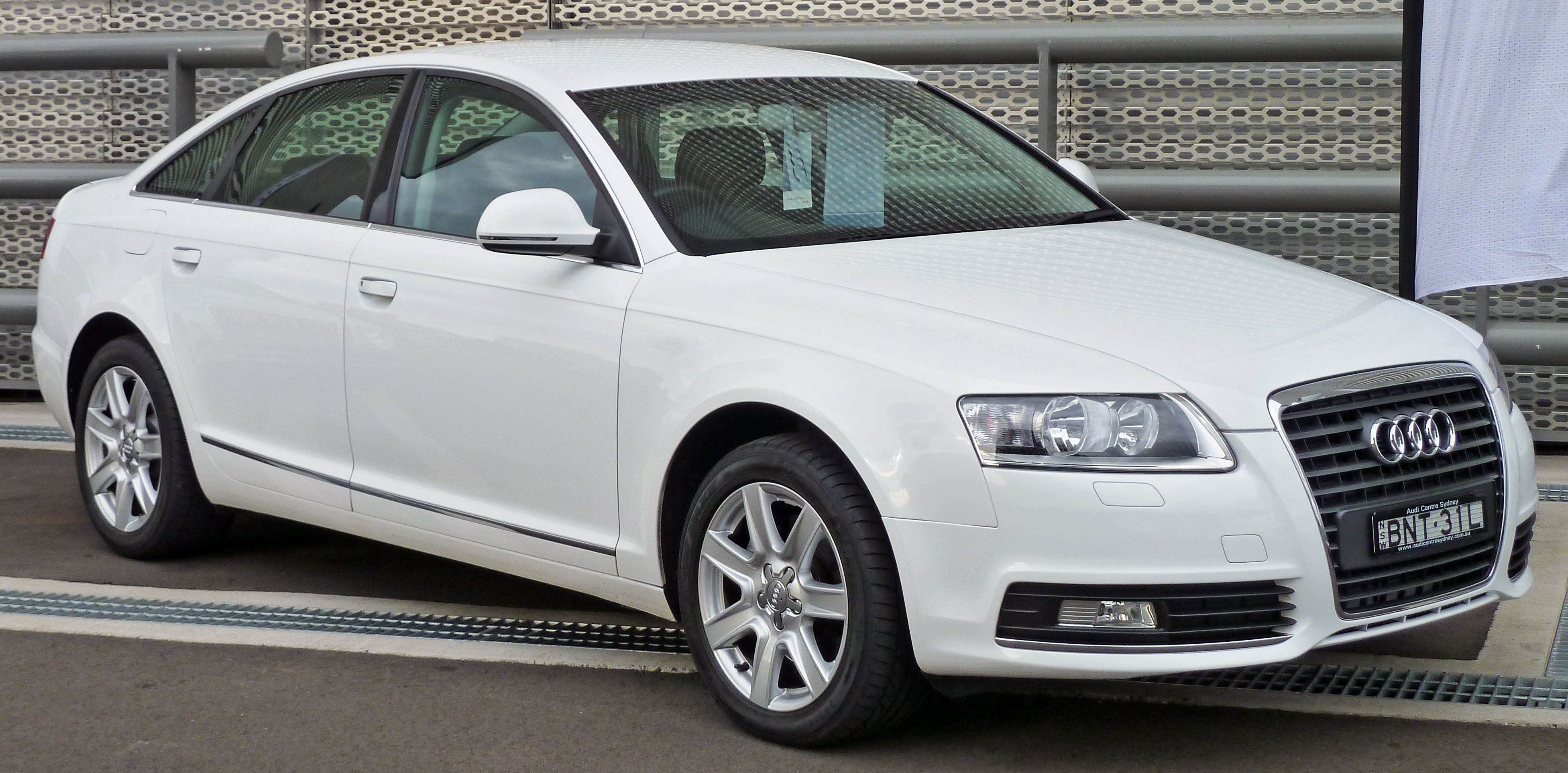 2009 Audi A6 (4F) 2.0 TFSI sedan. Photographed at the Audi Centre Sydney, Zetland, New South Wales, Australia.